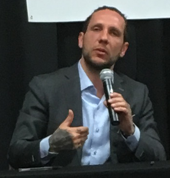 Former professional skateboarder and entertainer Brandon Novak speaks at a Students for Opioid Solutions event at Texas A&M University.